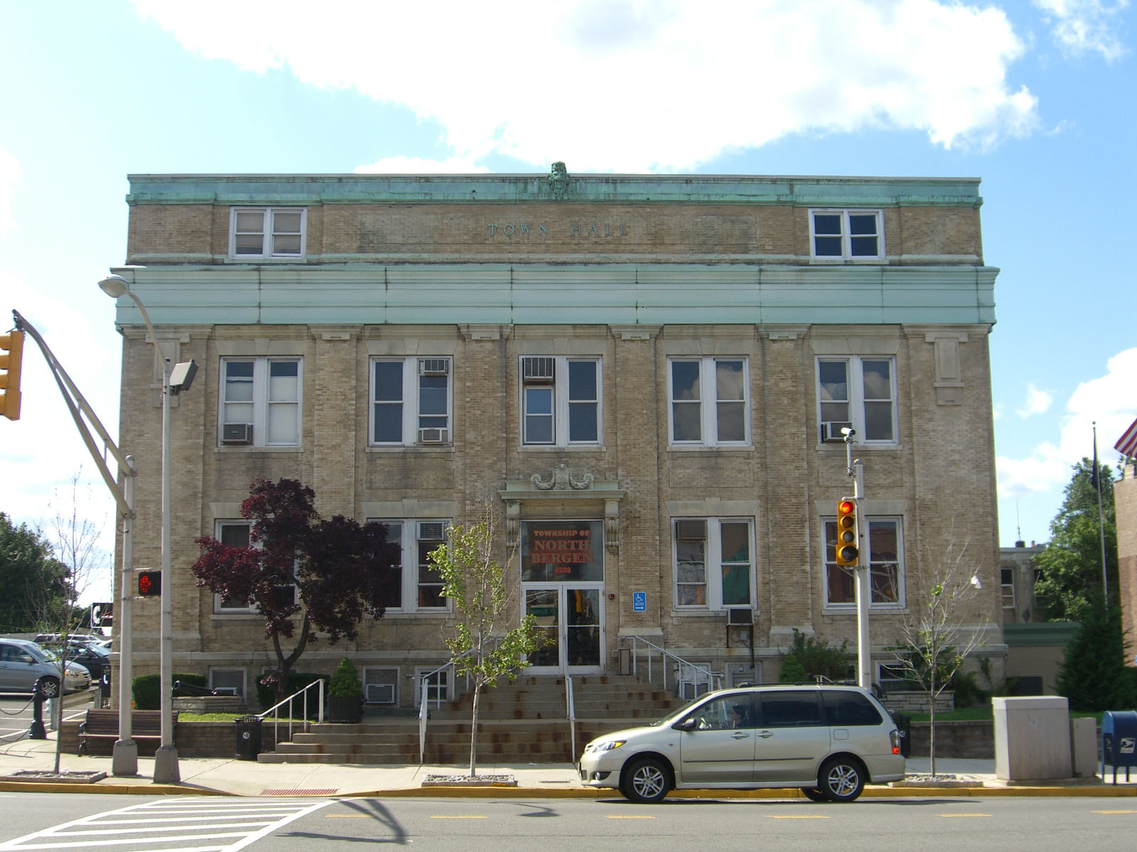 North Bergen Town Hall in North Bergen, New Jersey. This photo was created by Luigi Novi. It is not in the public domain, and use of this file outside of the licensing terms is a copyright violation.